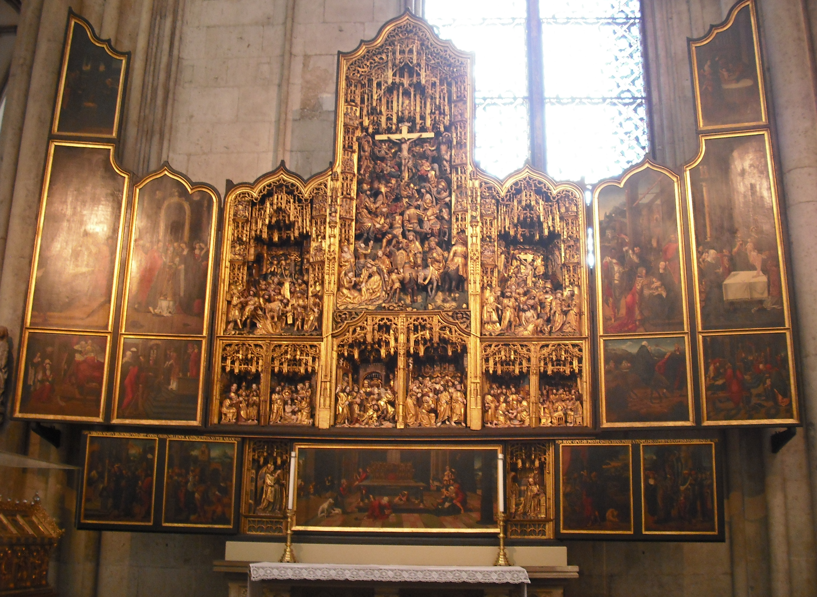 Cologne Cathedral, altarpiece of Agolilophus